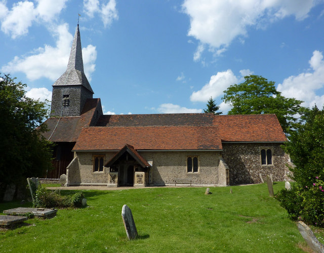 Church of St Margaret of Antioch, Margaretting Seen from the south side of the churchyard.